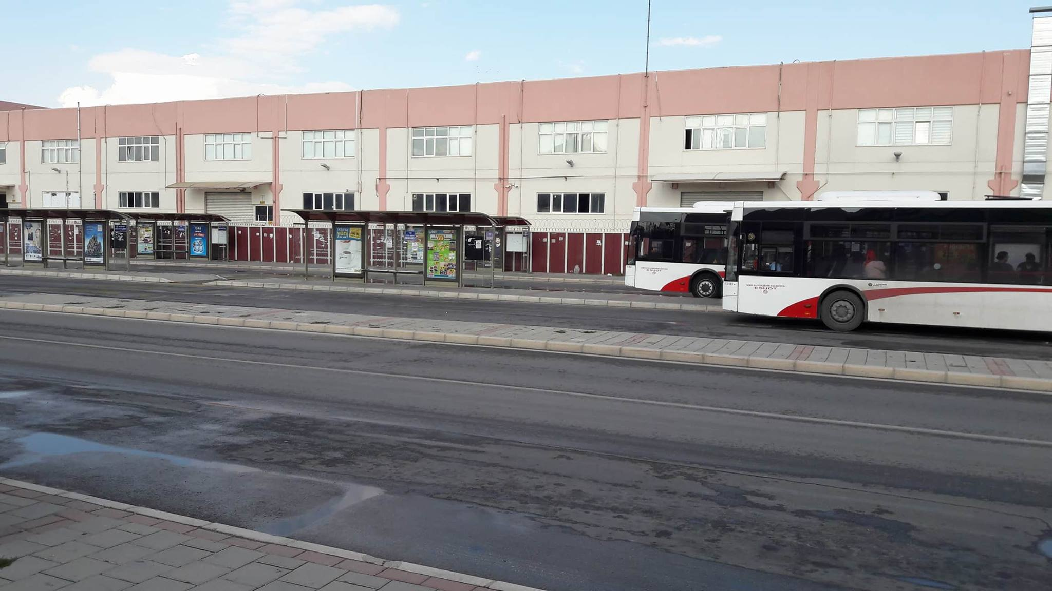 The Sarnic Bus transfer.